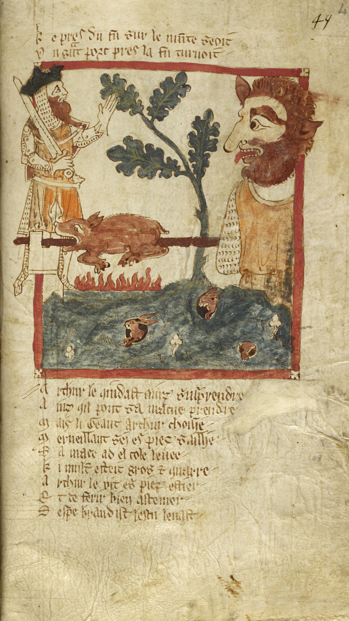 Arthur finds a giant (Whole folio) King Arthur finds a giant roasting a pig.